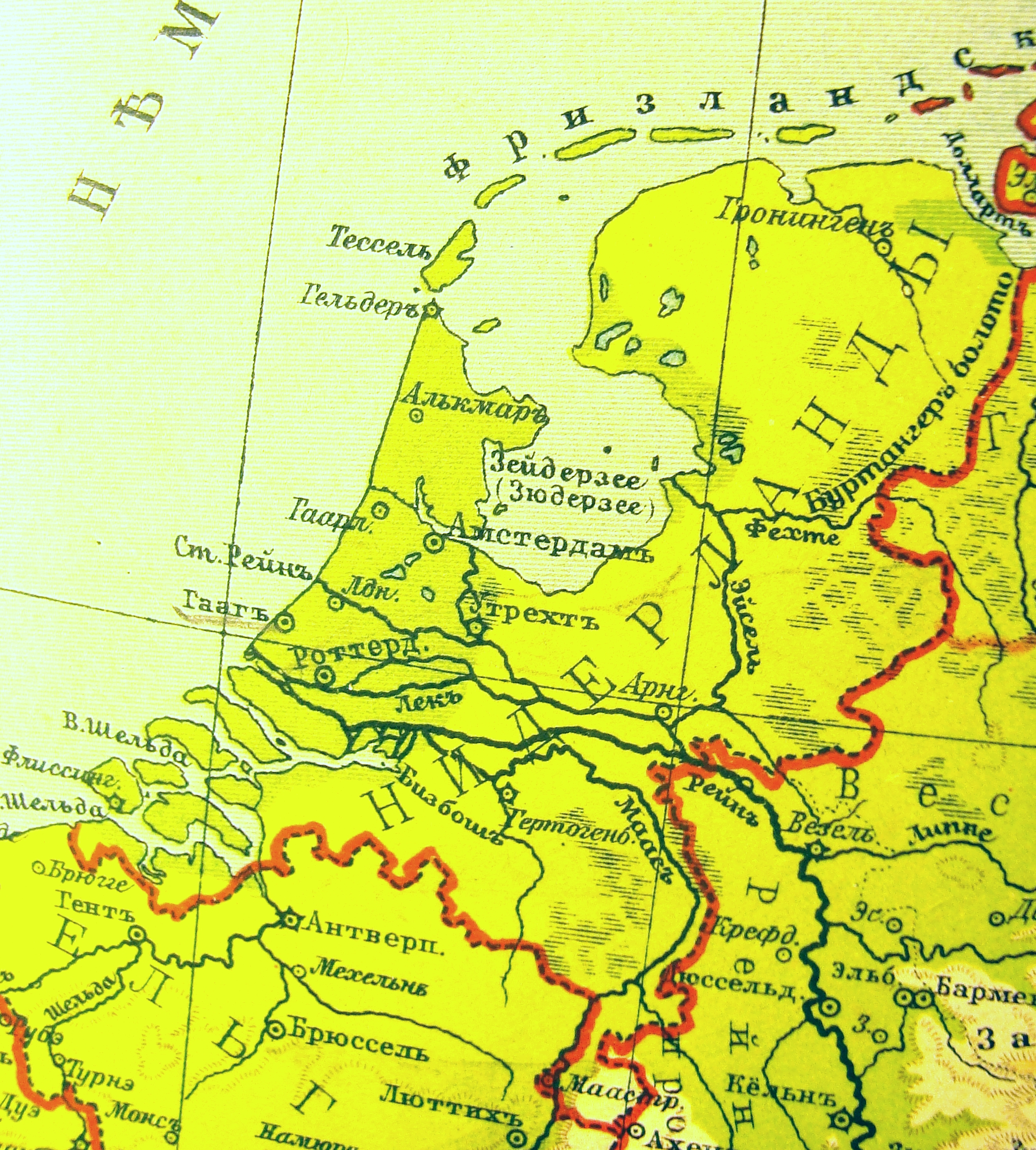 Map of the Netherlands. The Russian geographical atlas, 1916